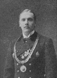 Sinelnikov, Ivan Aleksandrovich